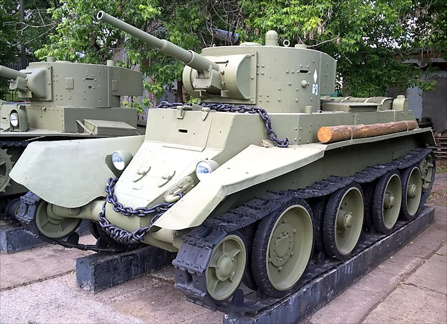 Saglabājies BT-7 modelis Centrālājā Bruņoto spēku muzejā. Maskava, Krievija